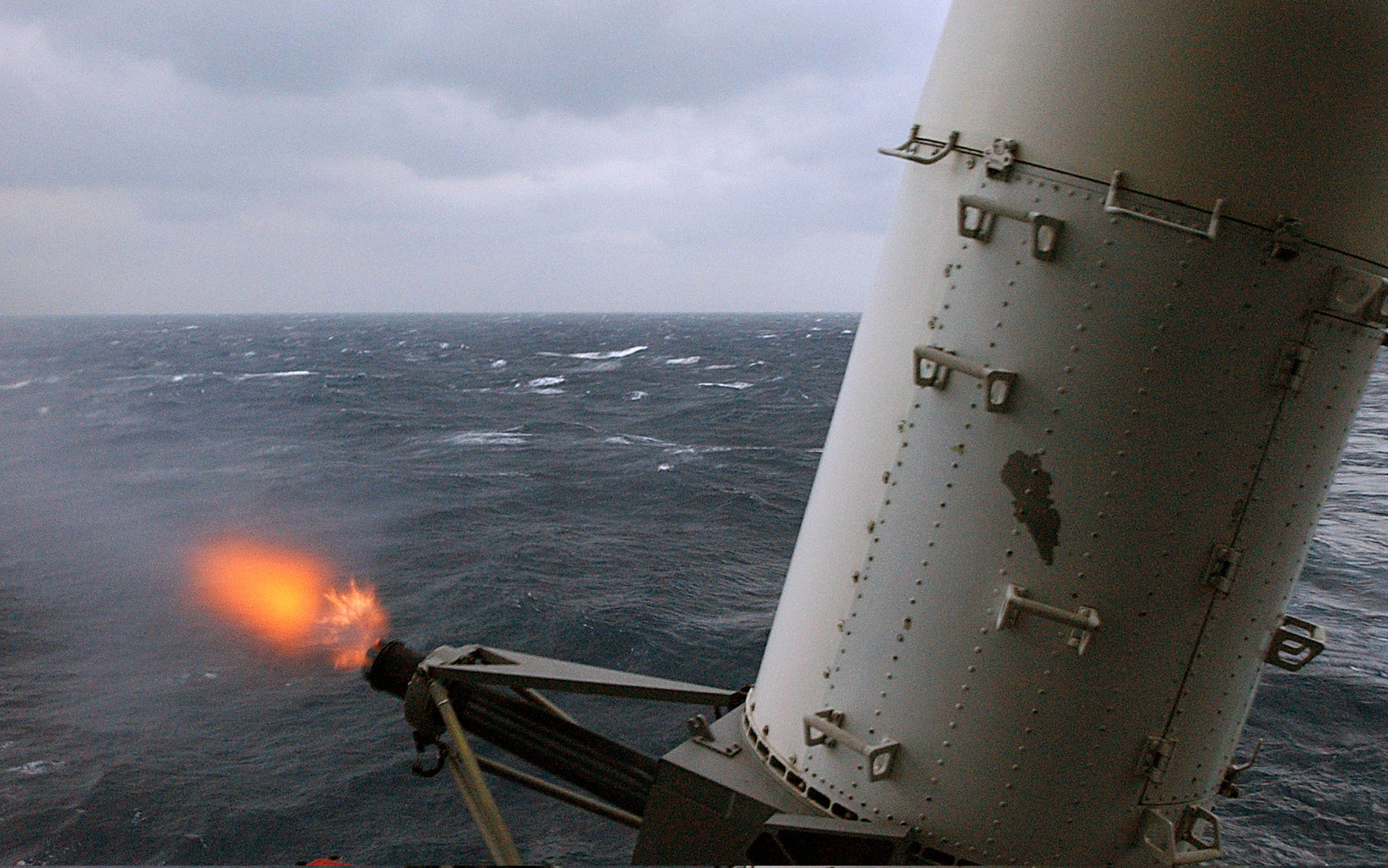 Atlantic Ocean (Feb. 25, 2004) – One of USS Harry S. Truman’s Close-In Weapons Systems (CIWS) conducts a testing firing exercise at sea. The nuclear powered aircraft carrier USS Harry S. Truman (CVN 75) is undergoing carrier qualifications and flight deck certification off the Atlantic coast. U.S. Navy photo by Photographer's Mate 3rd Class Jose L. Barrientos Jr. (RELEASED)